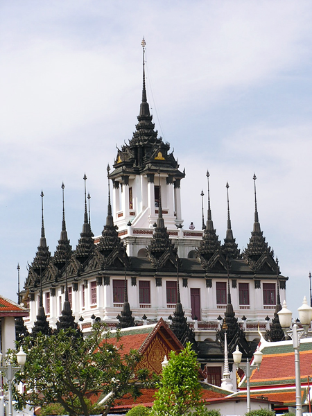 Loha Prasat at Wat Ratchanadda Bangkok Thailand